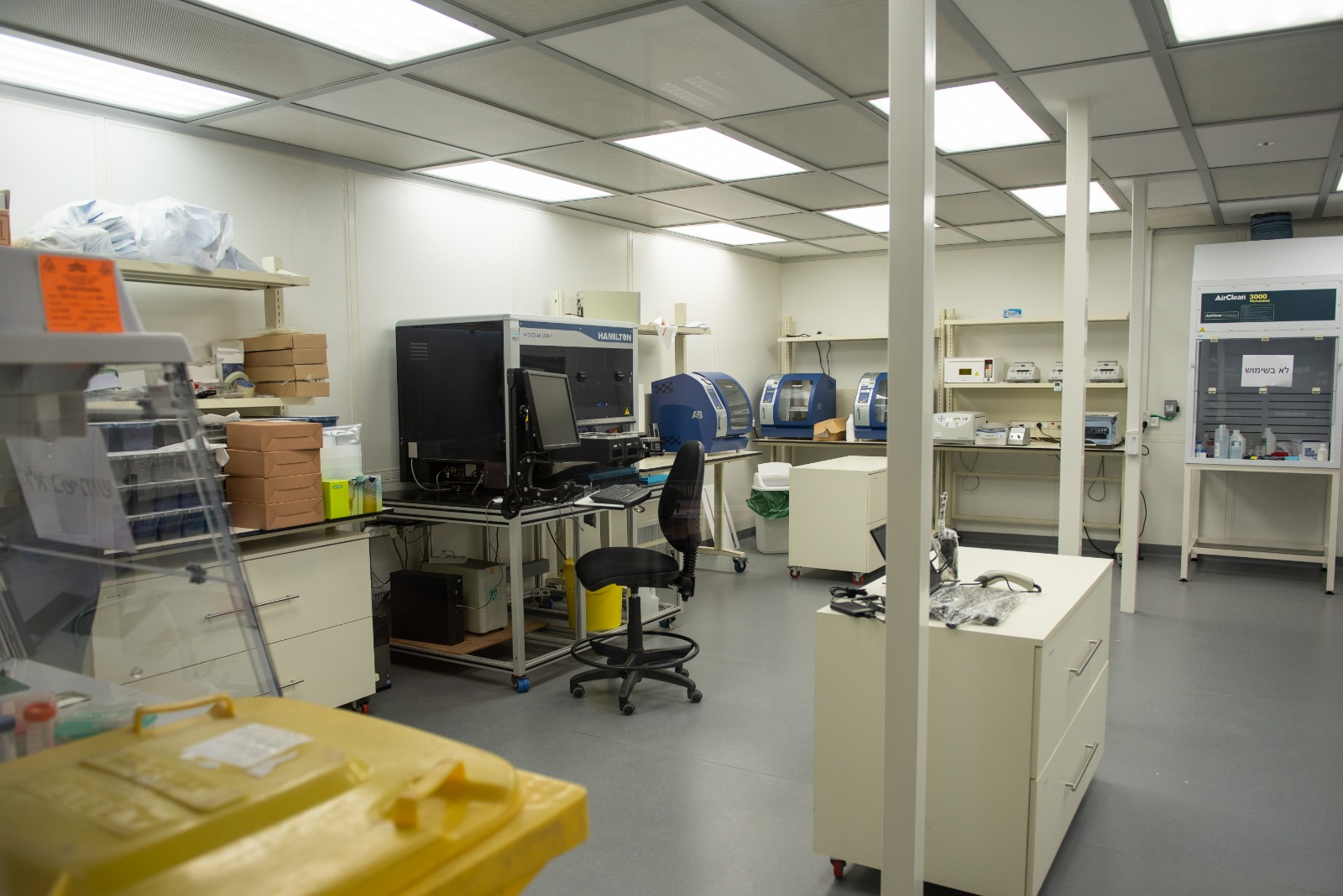 IDF Corona Laboratory established at Tzrifin Military Rabbinate.